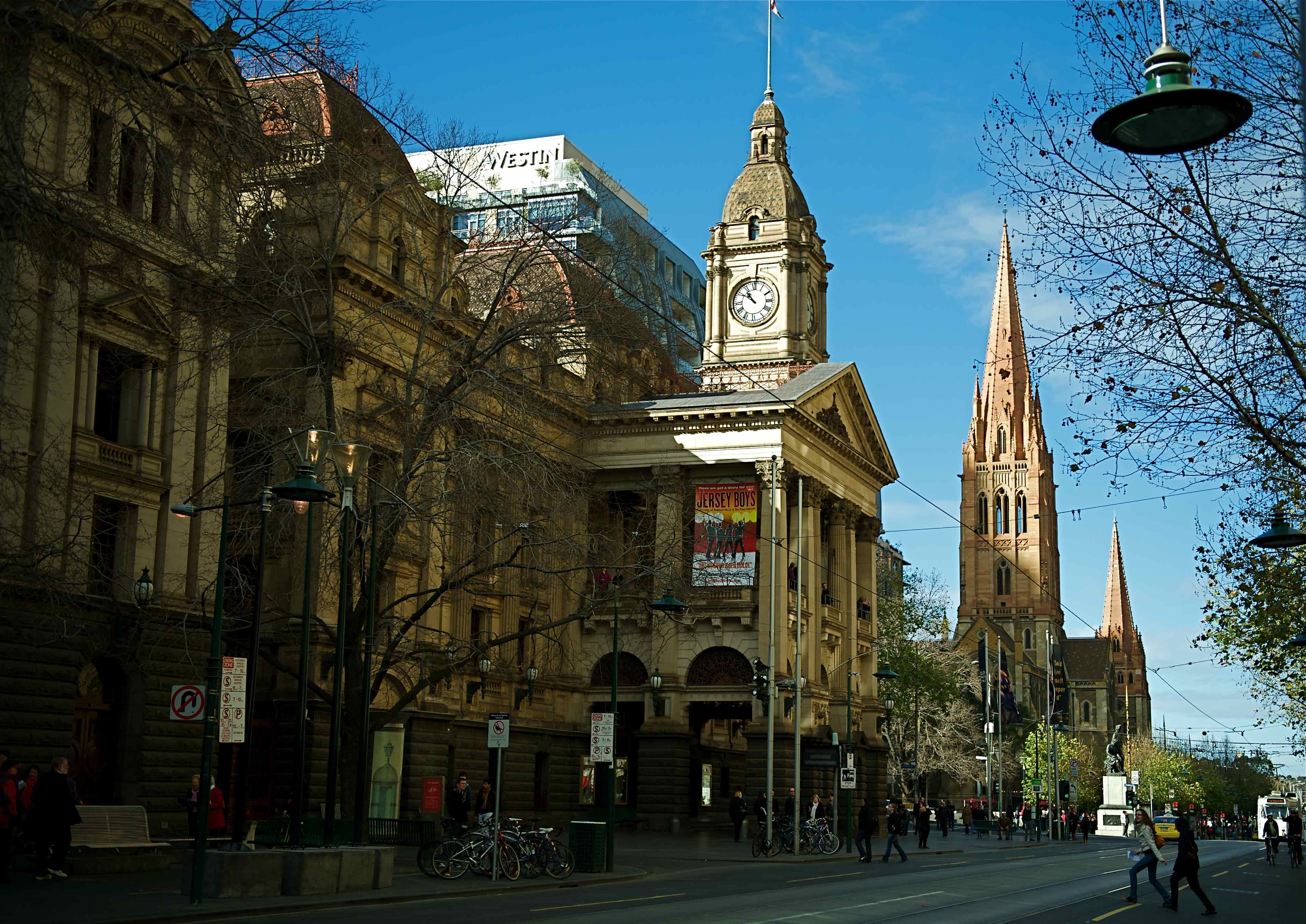 Melbourne Town Hall taken from Swanston St. with St Pauls further south.